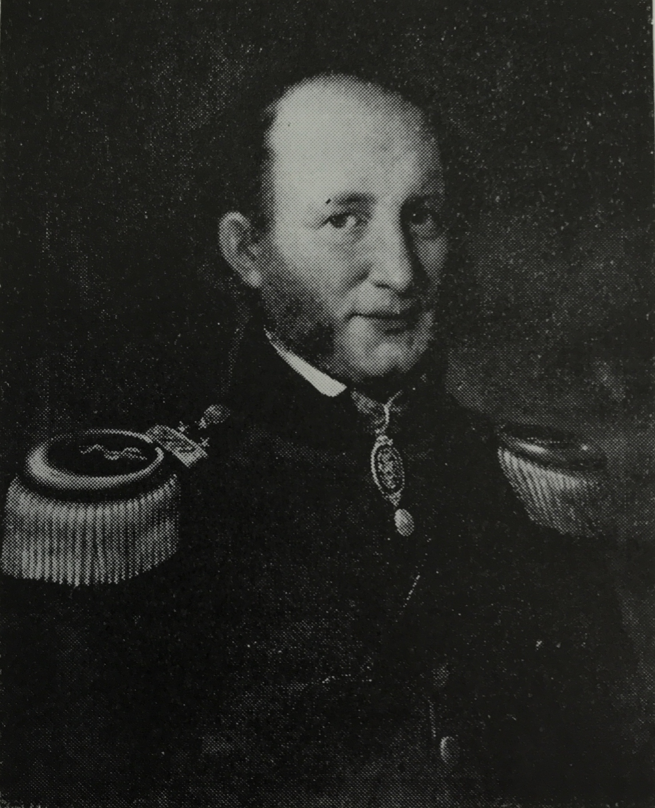 Photograpic reproduction of a painting of C. J. Fürst (1791-1855), Swedish Navy physician